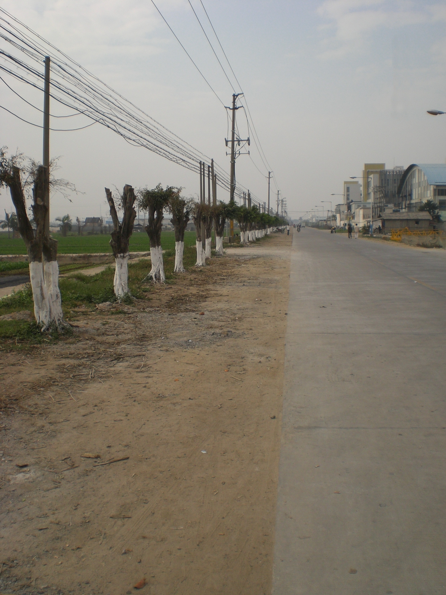 Dusty Road in Industrial Area of Dong Chong Town, Pan Yu District, Guangzhou